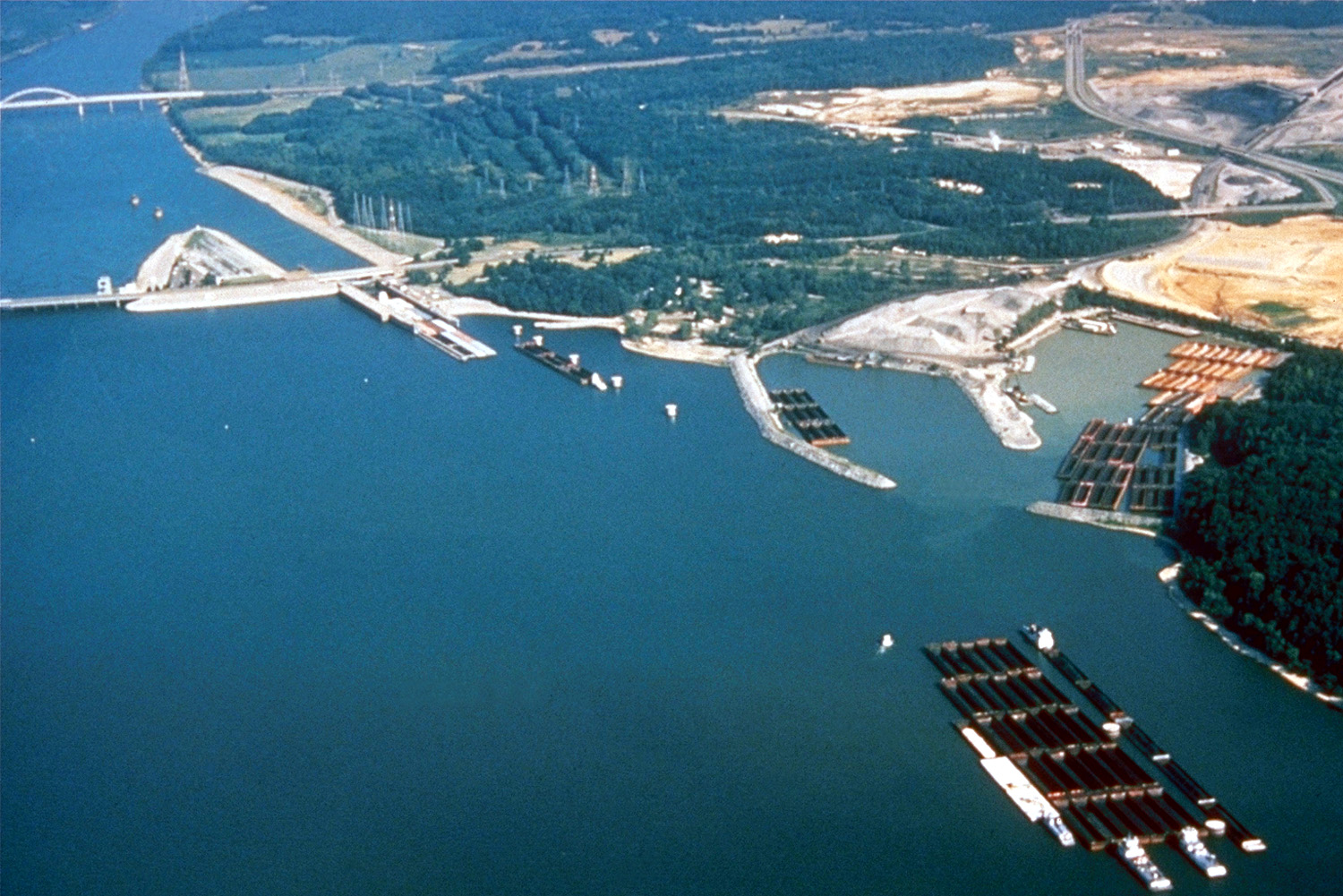 Kentucky Lock and Dam at the lower end of Kentucky Lake near Grand Rivers, Kentucky, USA. The lock and dam impound the 184-mile (296 km) Kentucky Lake and provide flood control, river navigation, hydroelectric power production, and recreation. The lock is operated and maintained by the U.S. Army Corps of Engineers.